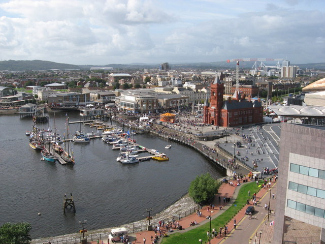 Cardiff Bay, Cardiff, Wales.